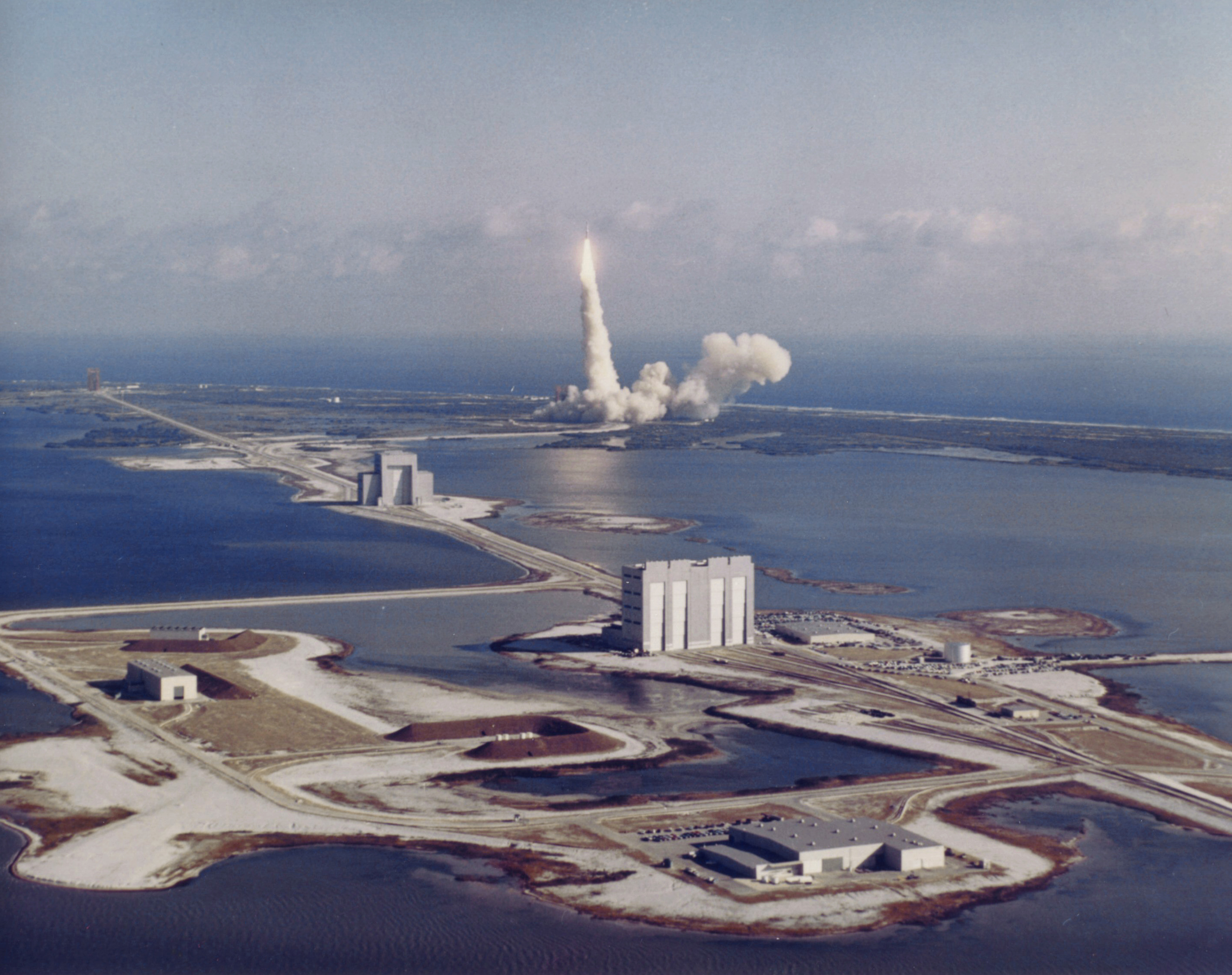 Launch of the Titan IIIC from Cape Canaveral pad 40 carrying the Gemini B capsule for the Manned Orbiting Laboratory qualification mission.